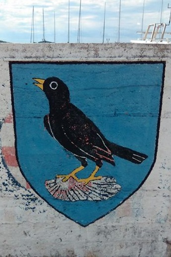 Coat of arms of Tkon that can be found at the entrance to the Tkon ferry harbor, painted on a wall. Tkon, Pašman, Croatia